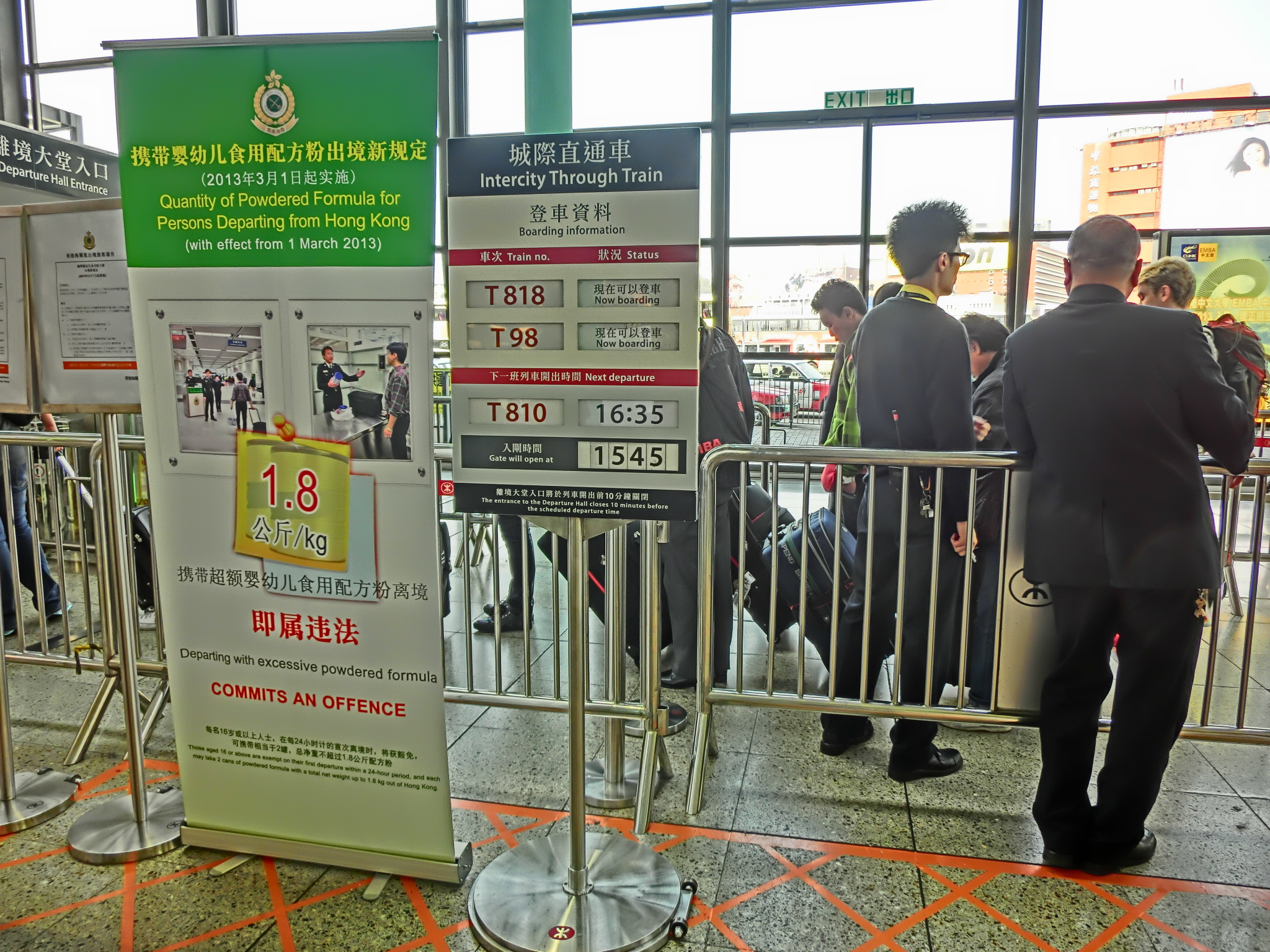 城際直通車 Intercity Through Train, Hung Hom MTR Station, Hong Kong